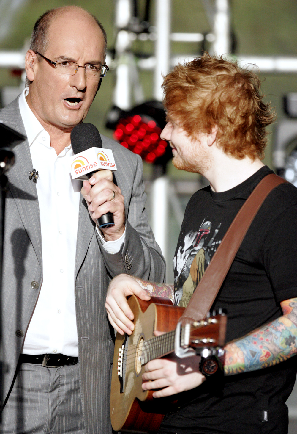 Ed Sheeran